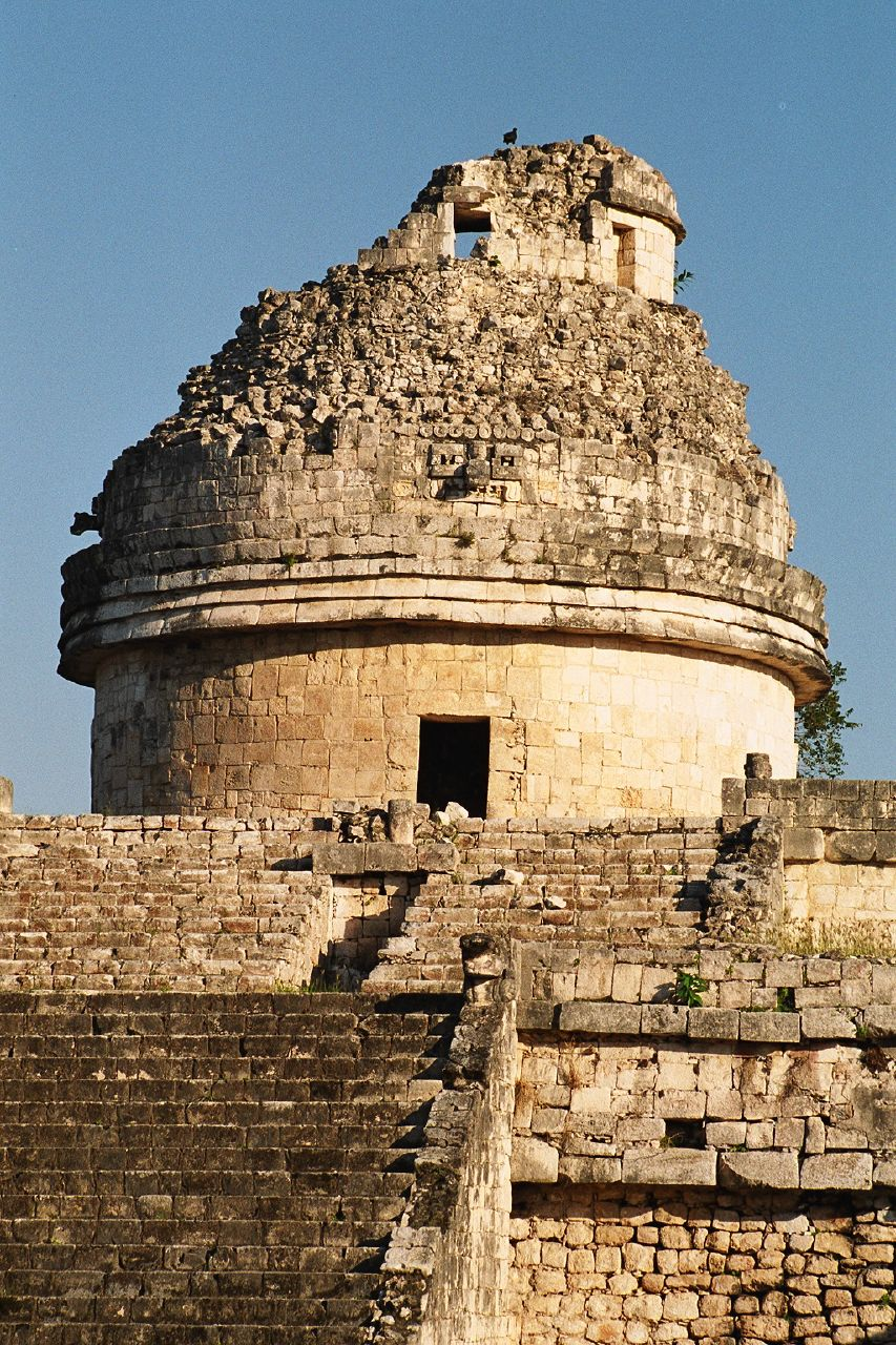 Chichén Itzá Mayan observatory